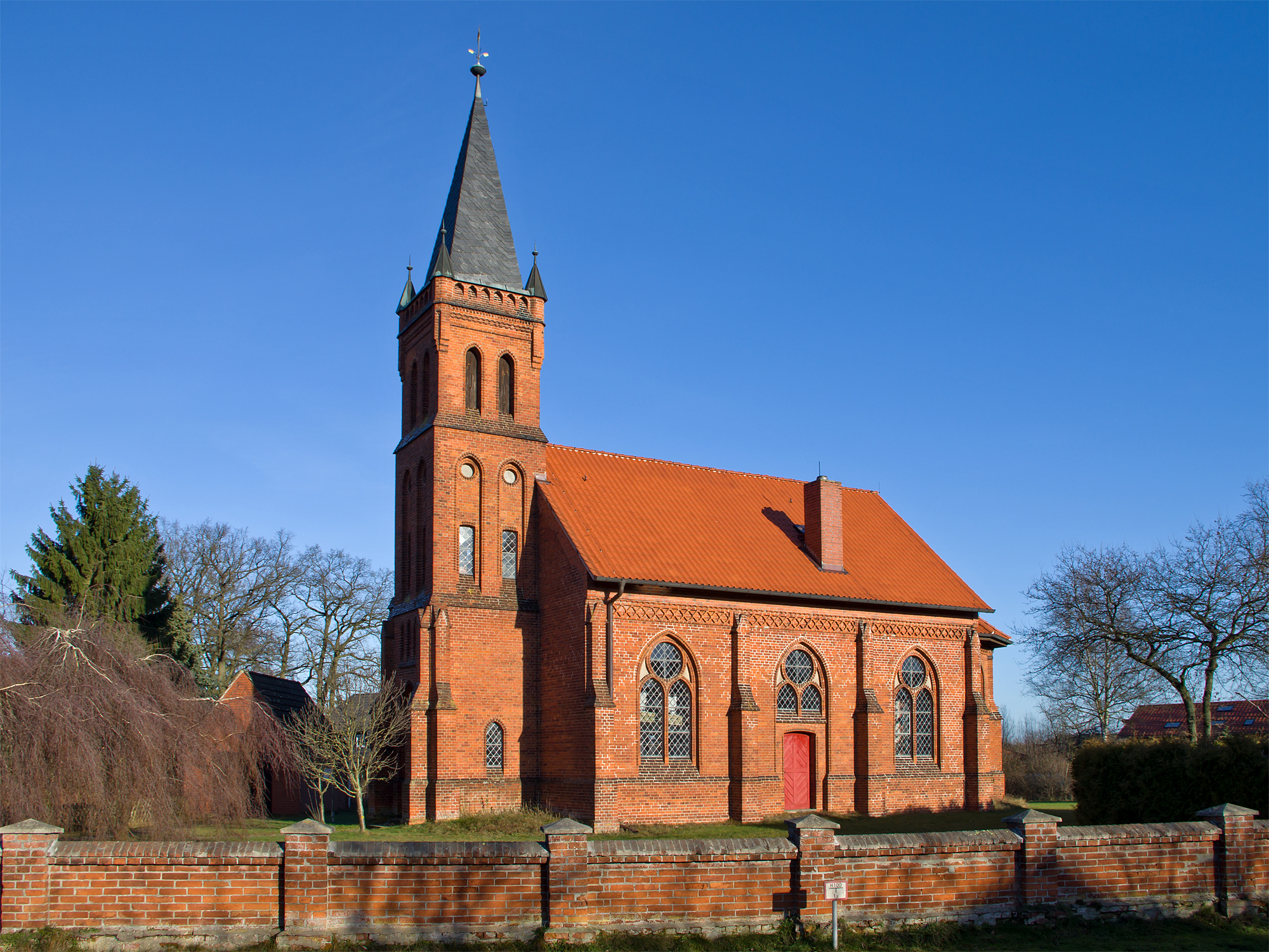 Church of the village Lomitz (district Lüchow-Dannenberg, northern Germany).